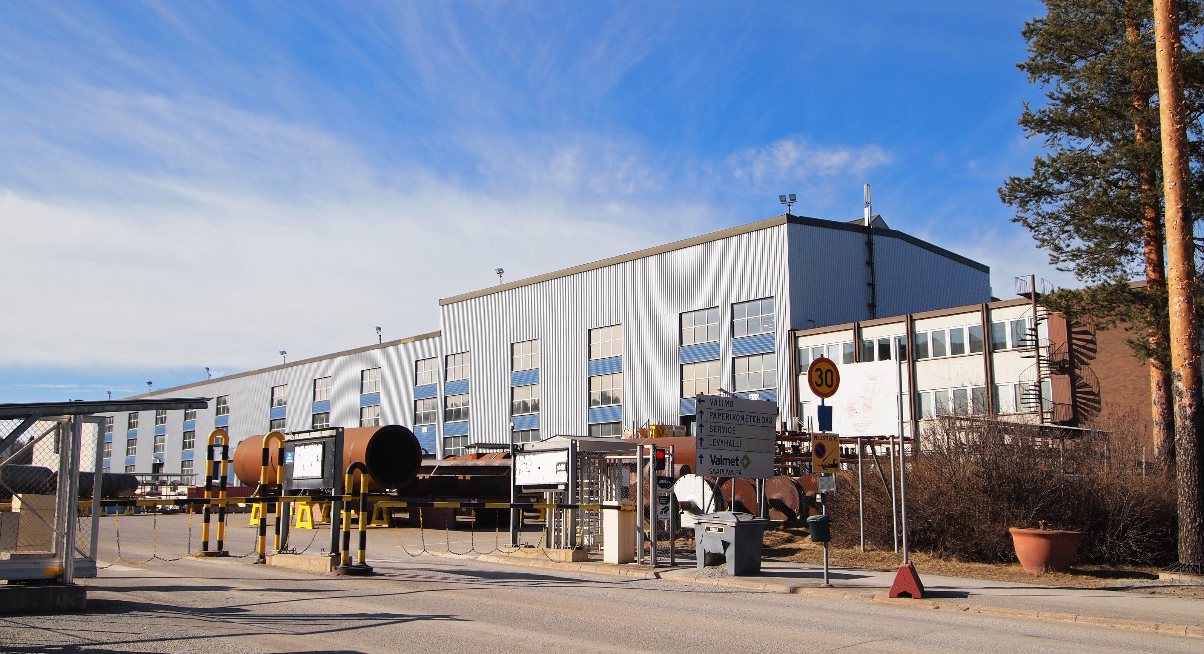 Valmet building in Jyväskylä. This photograph was taken with an Olympus E-PL1